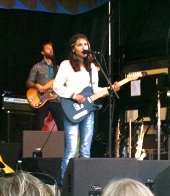 Laleh (Pourkarim) at concert event (headlined by Lars Winnerbäck) at Citadellet, Landskrona, 10 July 2010.